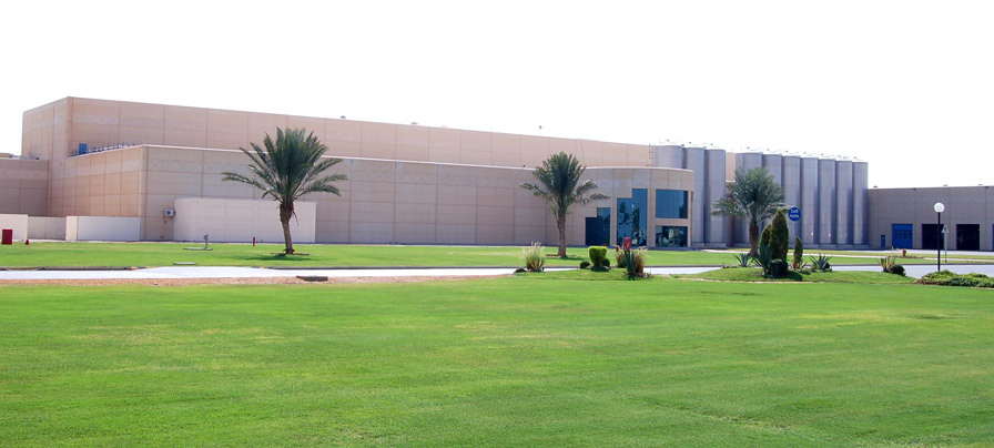 Photo of Almarai Central Processing Plant in Al Kharj, Saudi Arabia